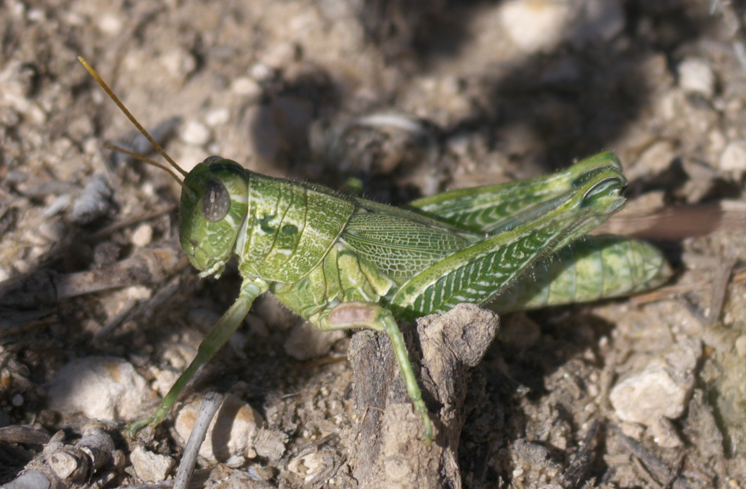 Campylacantha olivacea, Fuzzy Olive-Green Grasshopper, ID Confidence: 90